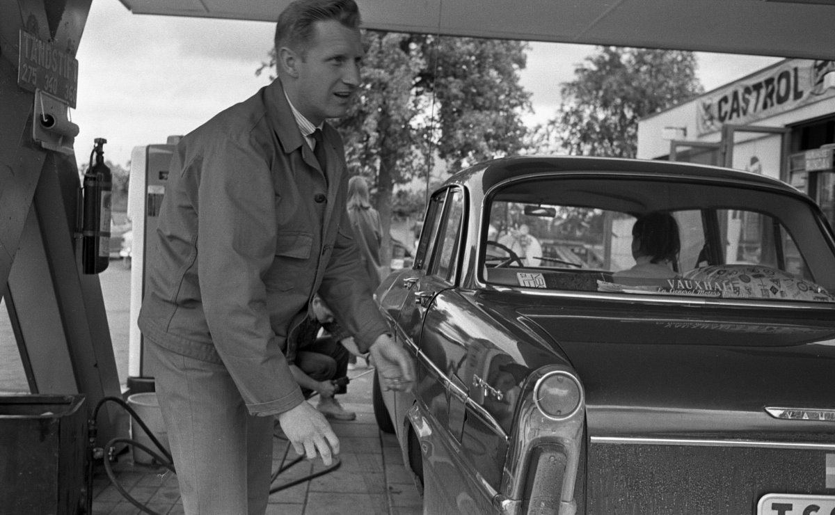 Arne Selmosson, 29 June 1965 Football player Arne Selmosson by car at the Uno-X petrol station in Örebro. Woman in the passenger seat. Castrol IDENTIFIER OLM-2012-8-1204 SUBJECT Arne Selmosson, 29 juni 1965 Fotbollsspelaren Arne Selmosson vid bil på besinstationen. Kvinna i passagerarsätet. Castrol AVBILDAD, ORT Sverige Örebro Örebro Örebro Dalbygatan SPECIFIC SUBJECT TERMS Vauxhall Fotbollsproffs Bensinstation Bil Metadata IDENTIFIER OLM-2012-8-1204 PART OF COLLECTION Örebro Kuriren OWNER OF COLLECTION Örebro läns museum INSTITUTION Örebro läns museum DATE PUBLISHED January 15, 2016 DATE UPDATED October 24, 2017 DIMU-CODE 021016183225 UUID CB088F71-BD06-4048-BE32-1DBE2AB8672B